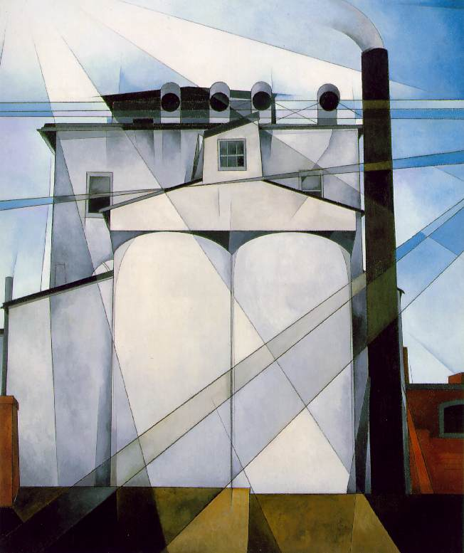 My Egypt, Oil on composition board 35 3/4 x 30 in. (90,8 x 76,2 cm) Whitney Museum of American Art, New York